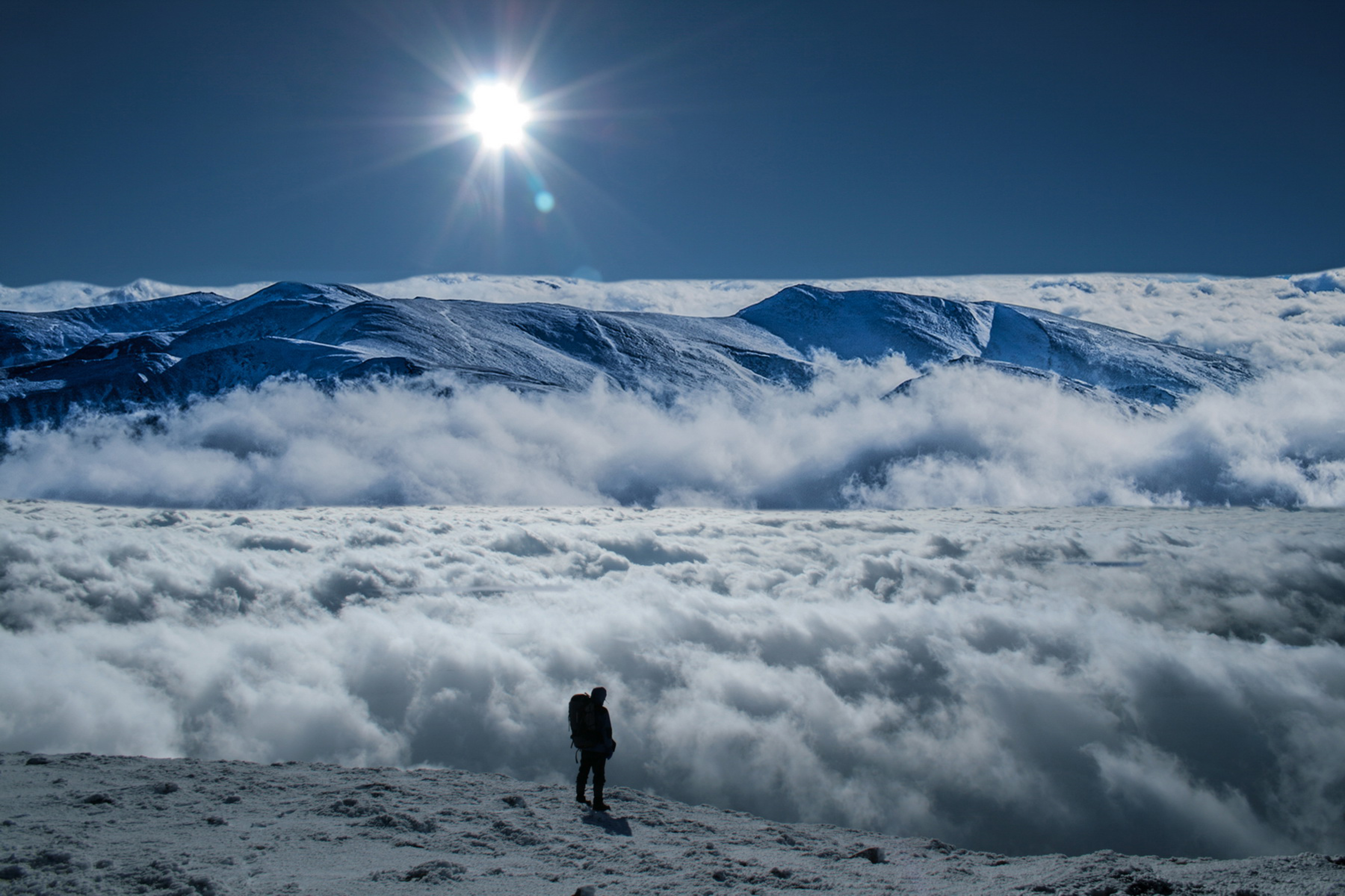 On Mount Hoverla. Carpathian National Park, Ivano-Frankivsk Oblast & Carpathian Biosphere Reserve, Zakarpattia Oblast